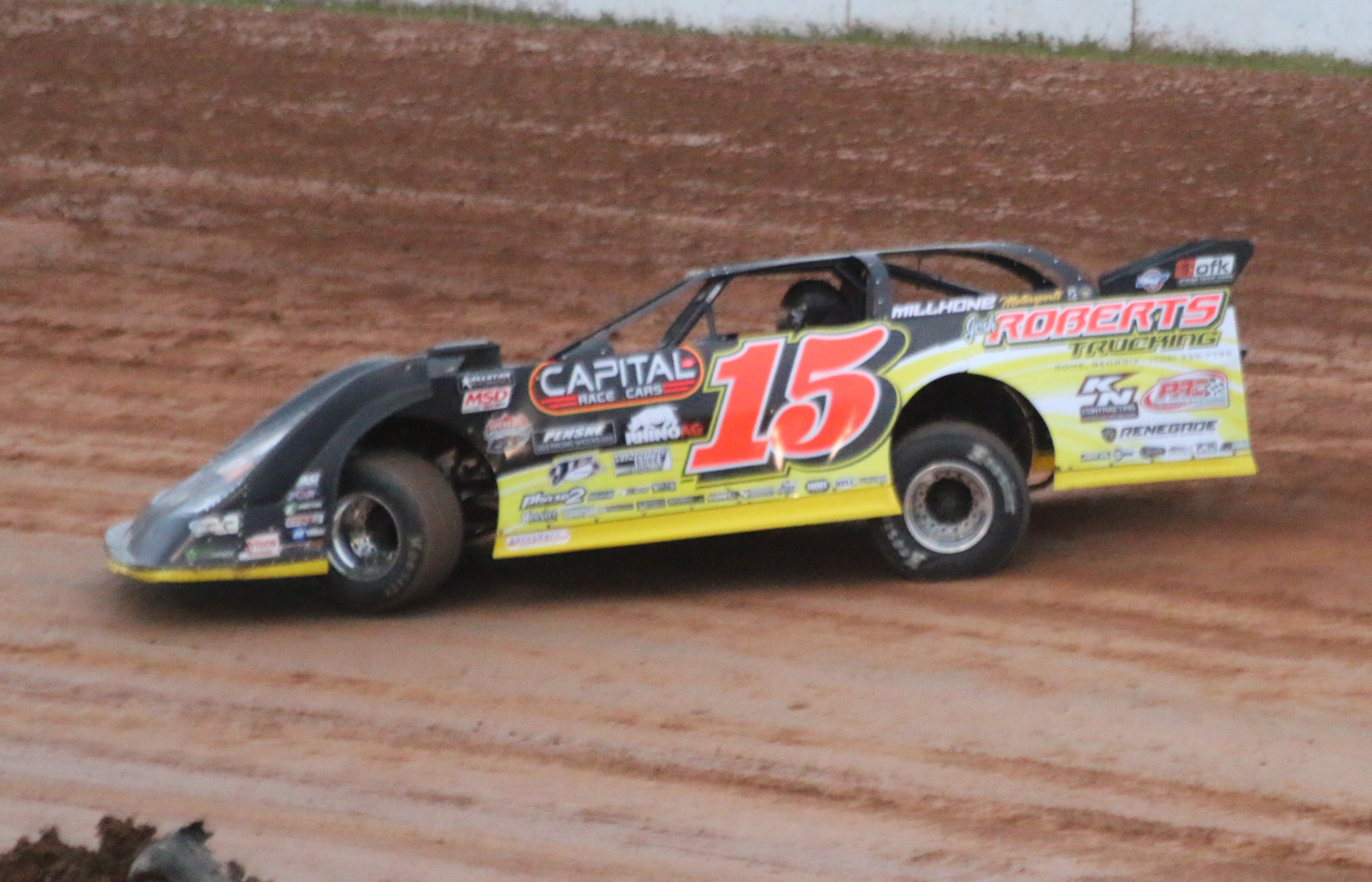 The Lucas Oil Dirt Late Model of National Dirt Late Model Hall of Fame driver Steve Francis at Luxemburg Speedway.